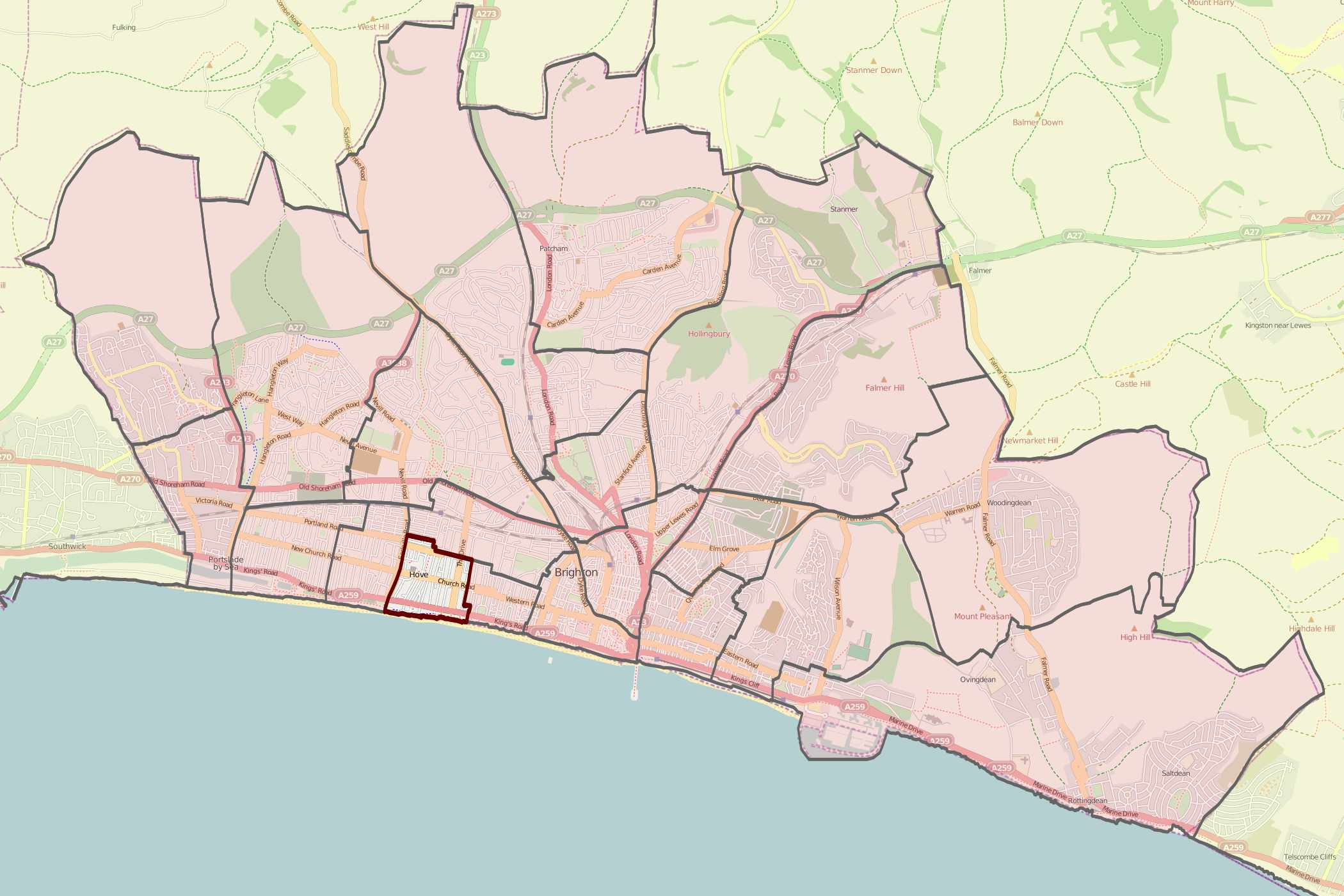 Map of Brighton and Hove wards with one ward highlighted